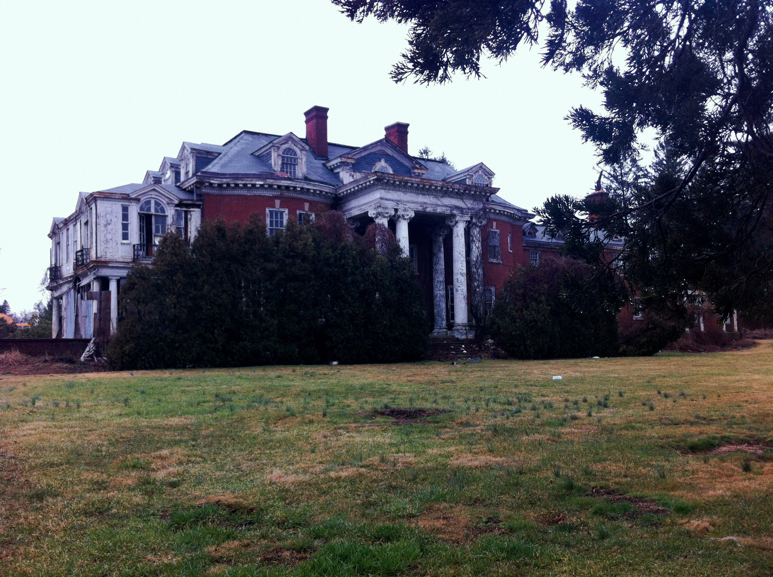 Louis Marks House, taken on March 3, 2012.